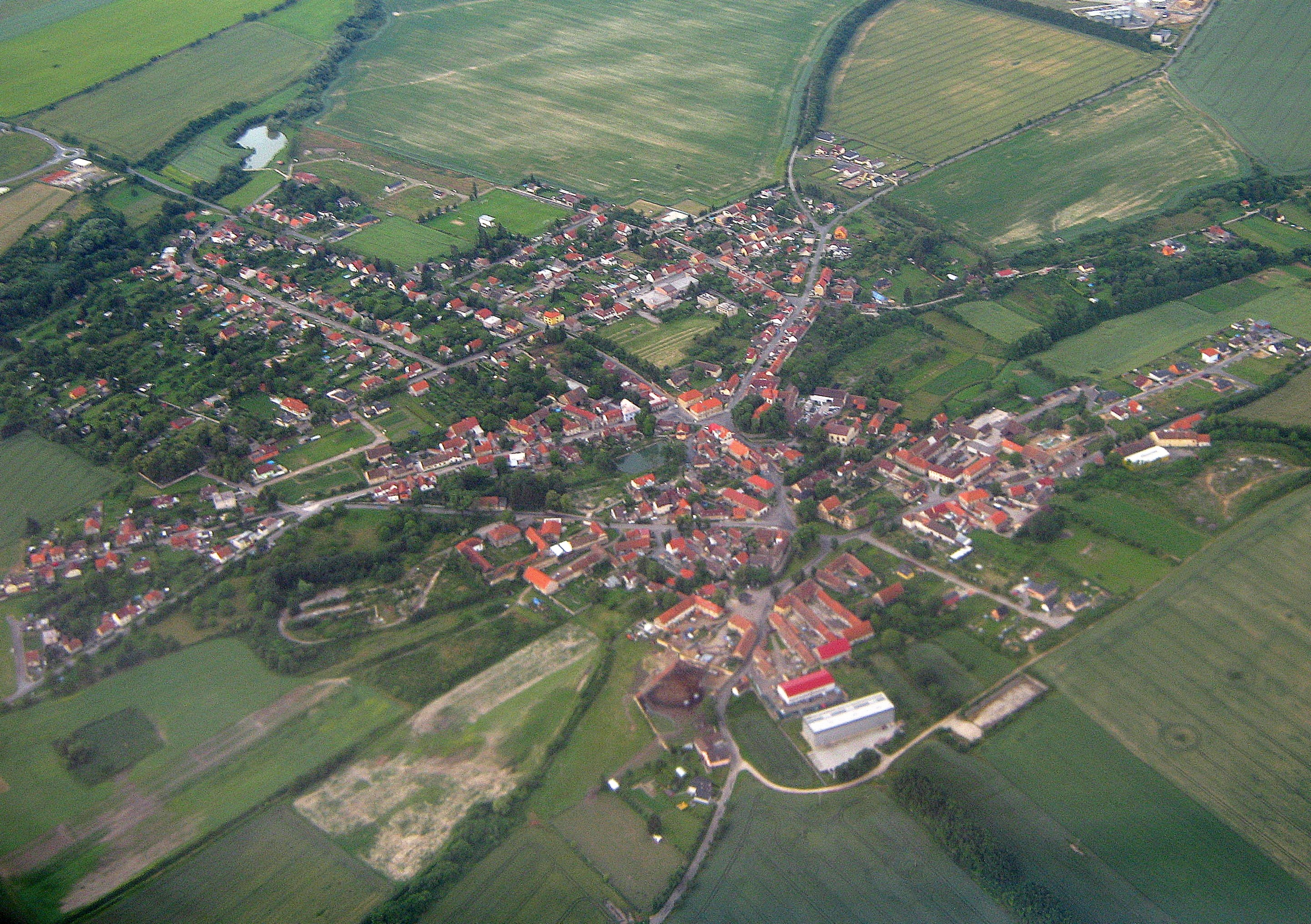 Aerial photography of a village in Central Bohemia